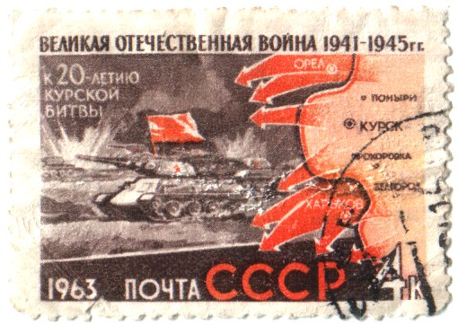 USSR postage stamp. 1963. Kursk Battle 20th anniversary.